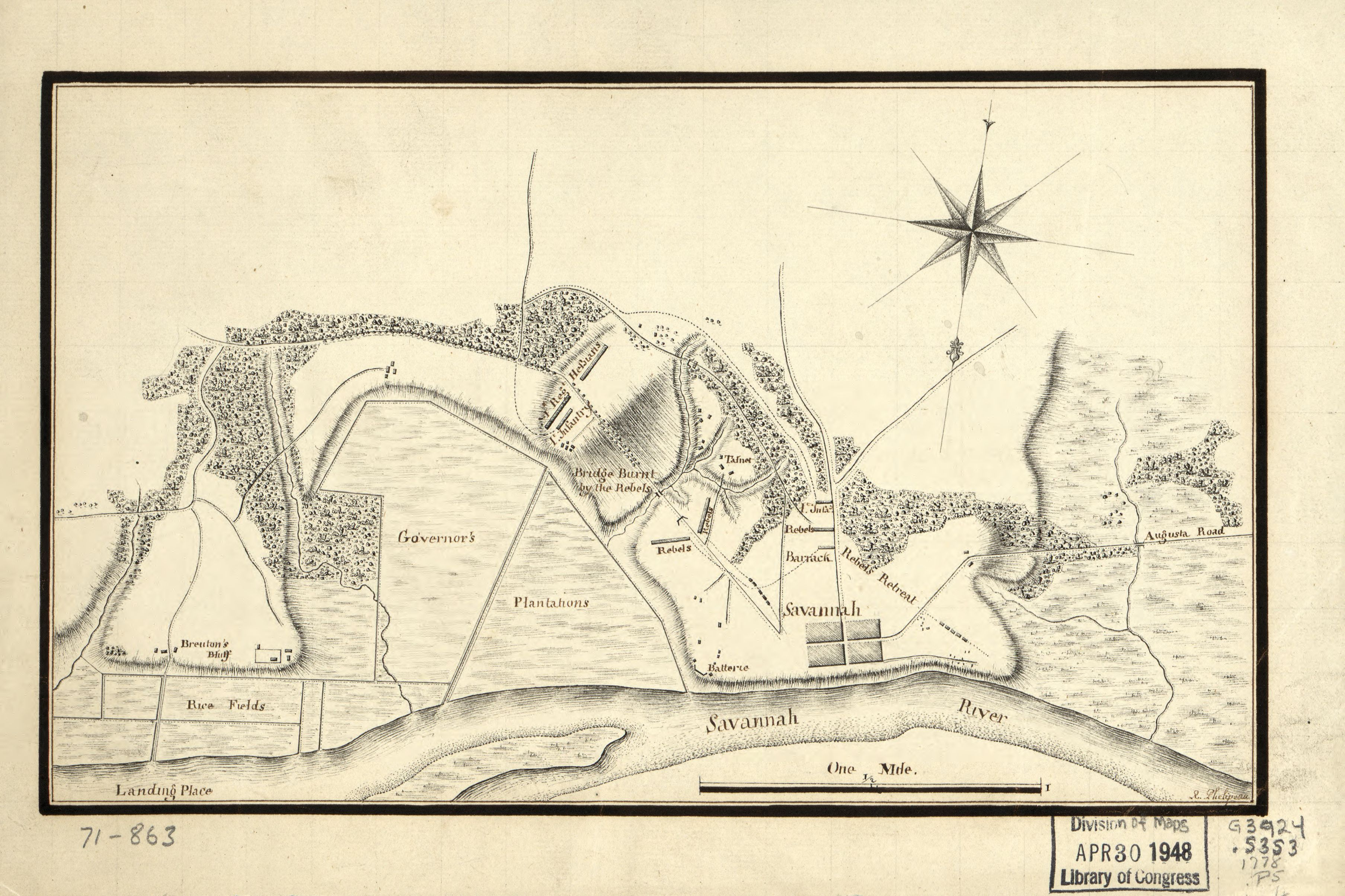 Scale ca. 1:21,000. Manuscript, pen-and-ink. Oriented with north to the bottom. Relief shown by hachures. LC Maps of North America, 1750-1789, 1574 Available also through the Library of Congress Web site as a raster image. Vault AACR2